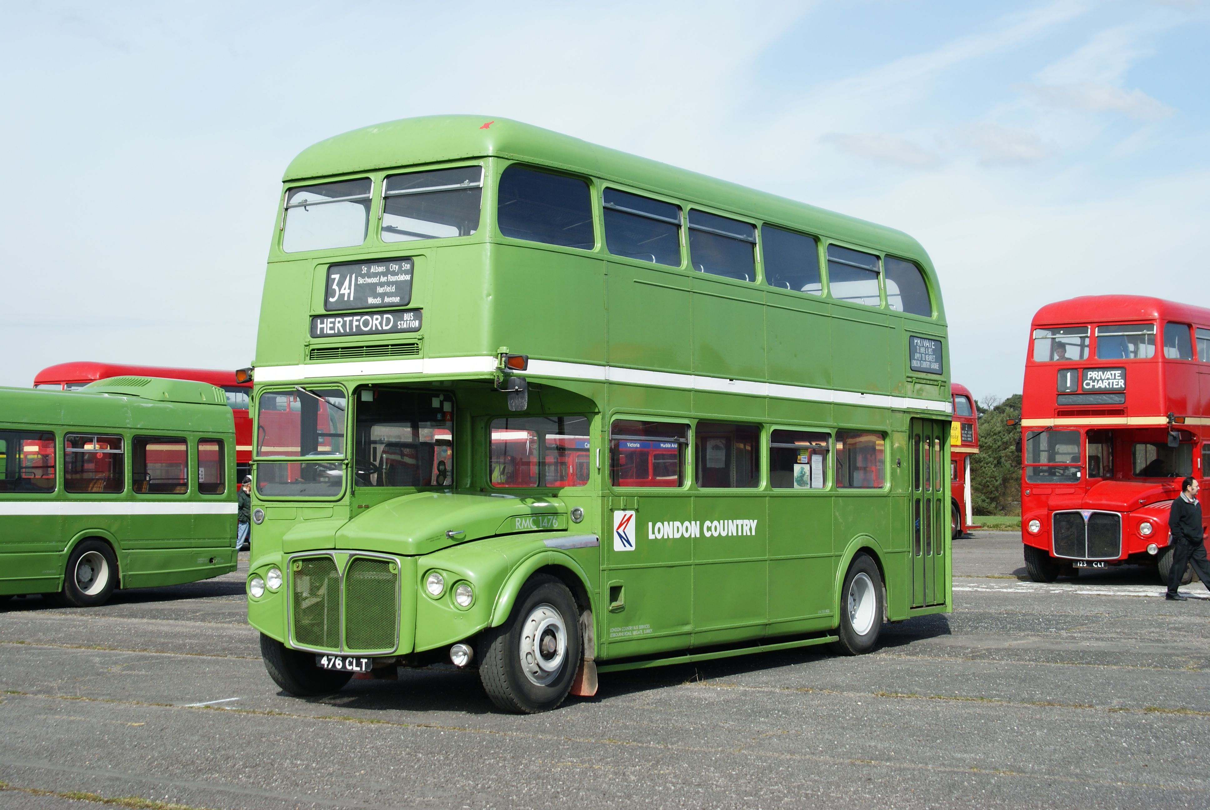 1476-476CLT 110410 CPS